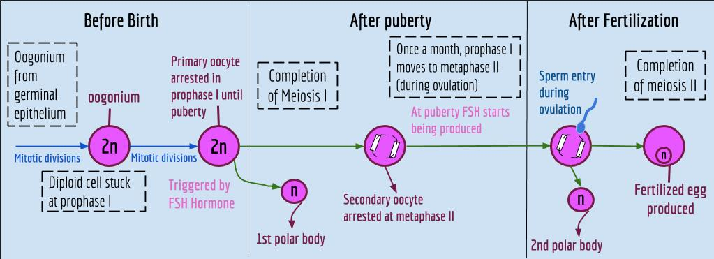 This is a diagram depicting the progression of an oogonium to a fertilized egg throughout oogenesis. This diagram shows the changes before birth, after puberty, and after fertilization while also showing the completion of meiosis I and II.